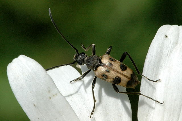 Picture taken in Commanster, Belgian High Ardennes . Species: Pachytodes cerambyciformis